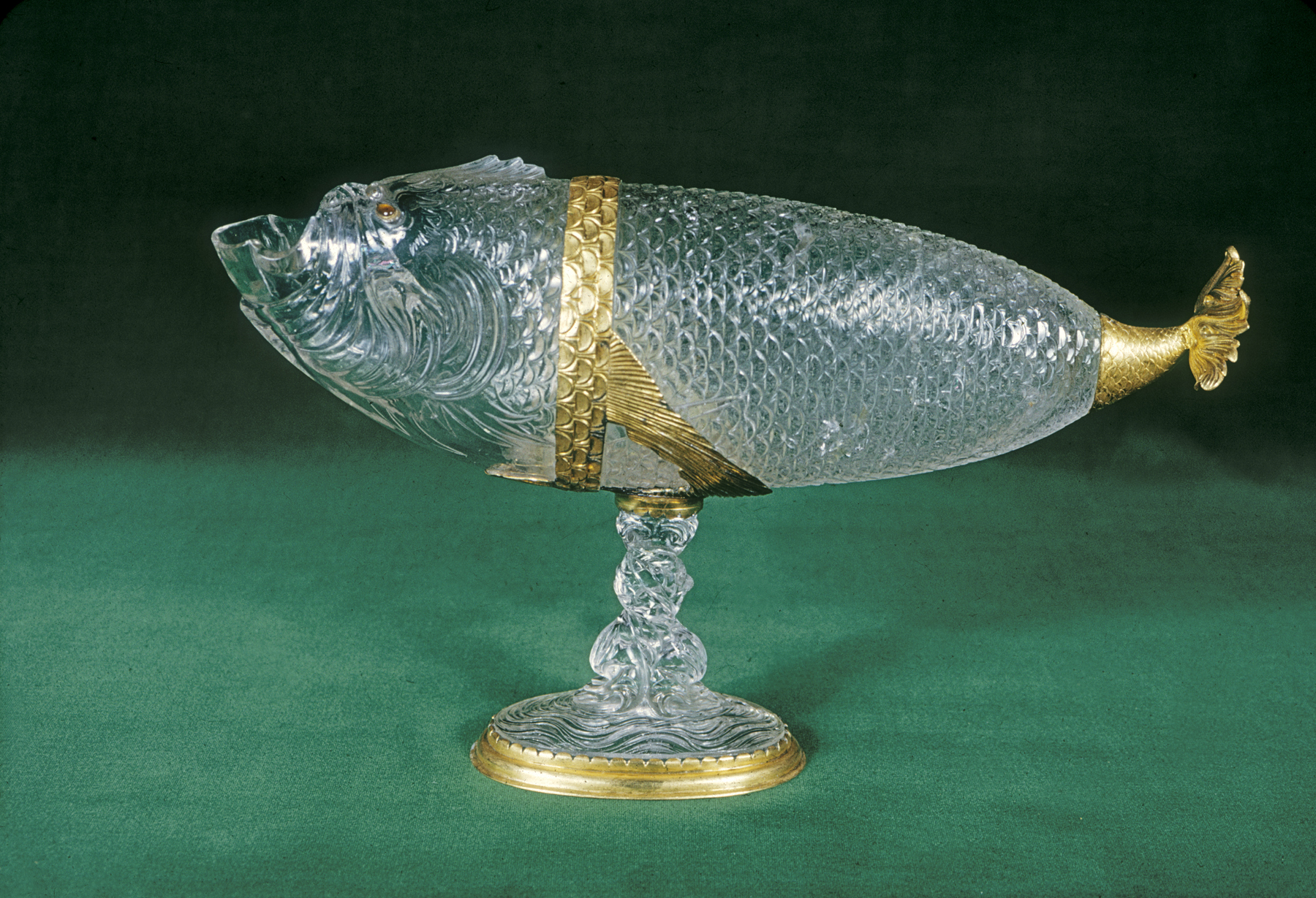 Such a refined object could have found a place either on the banquet table of a noble household or in a collection of masterpieces in rock crystal. Dolphins with entwined tails support the fish, while the wavy patterns on the base represent flowing water. During the late Renaissance and Baroque periods, natural shapes were often imitated in elaborate virtuoso displays, as is splendidly demonstrated here. Vessels in the shapes of fishes were a particular specialty of the Sarachi family in Milan.